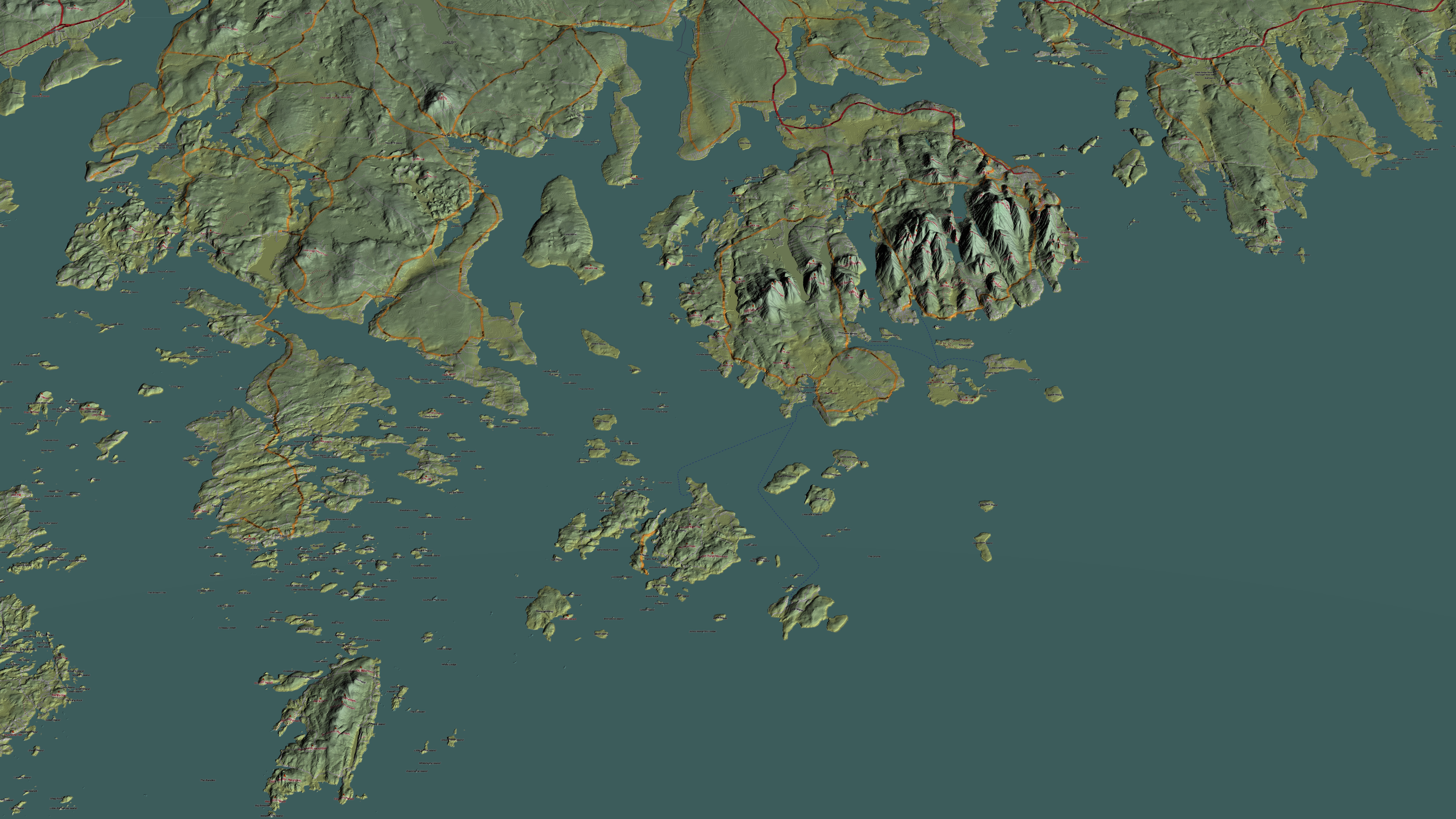 Acadia National Park, Maine, computer image generated using TruFlite